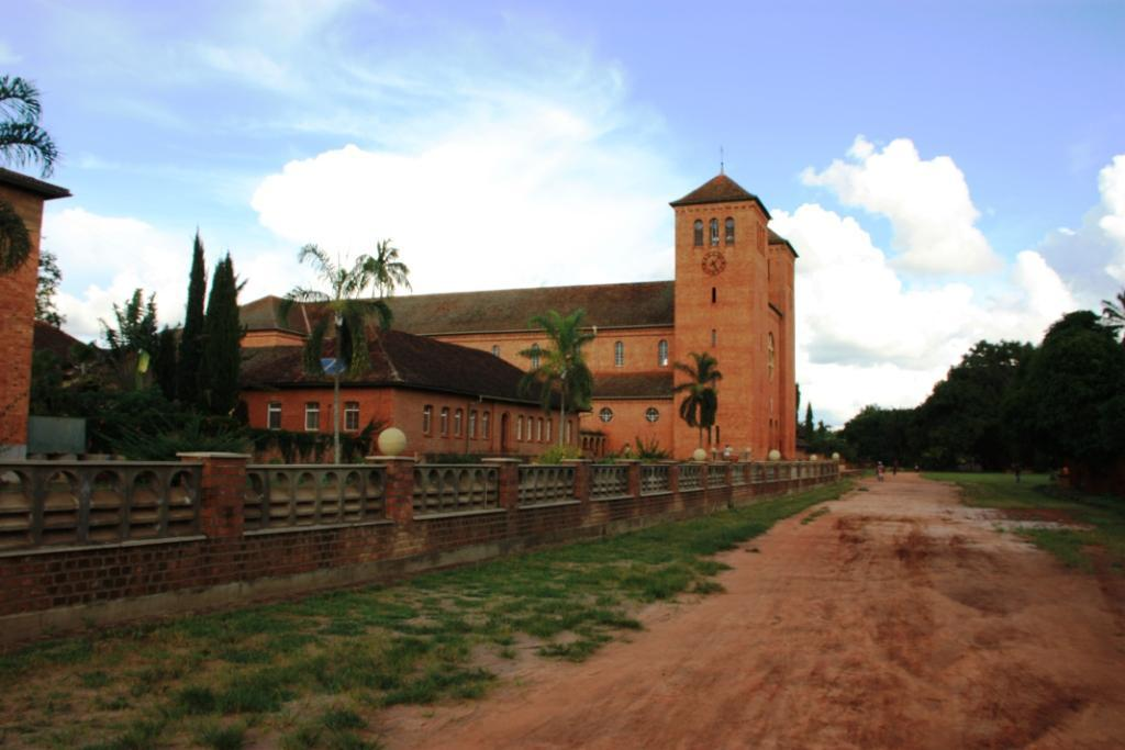 Church of the Benedictine Monastery at Peramiho, Tanzania 2012